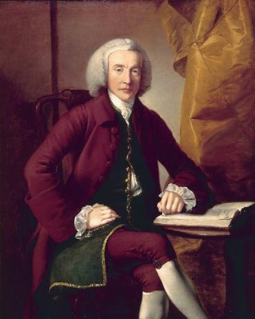 Portrait of Thomas Borrow